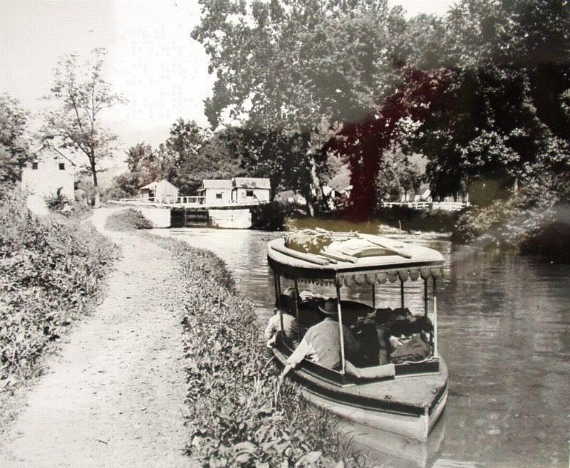 NPS photo, Launch approaching Pennyfield Lock (Lock 22) on the C & O Canal